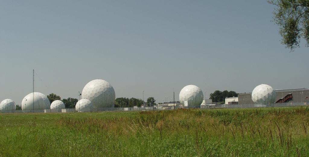 Field Station 81 (Bad Aibling Station) am 2005-07-28